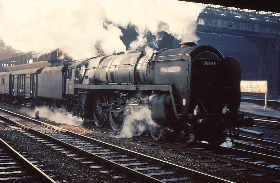 70045 Lord Rowallan , Manchester Victoria